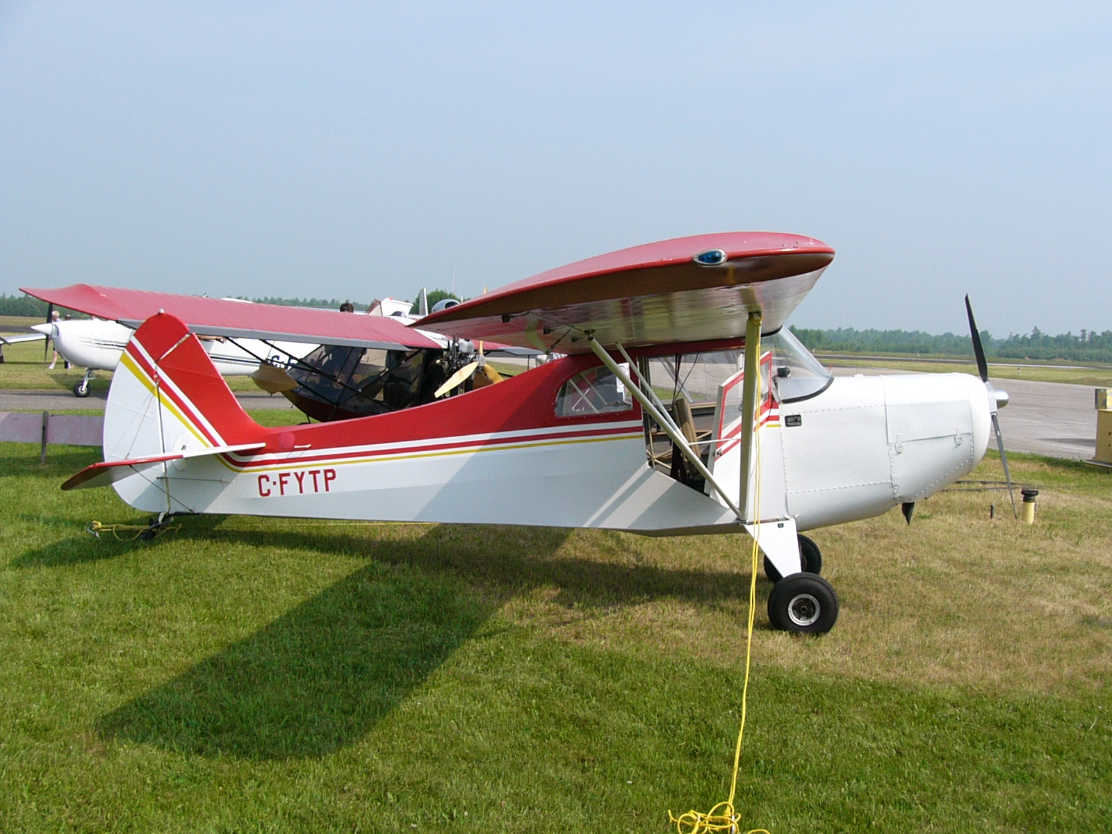 A Christavia Mark 1 at the Brockville Fly-in, Brockville, Ontario, Canada